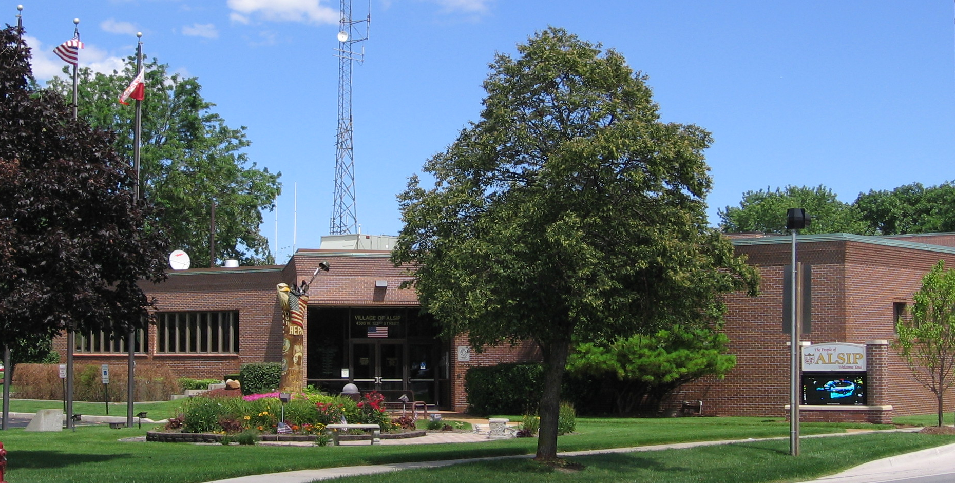 This is a photograph of the Village Hall for Alsip, Illinois, USA.